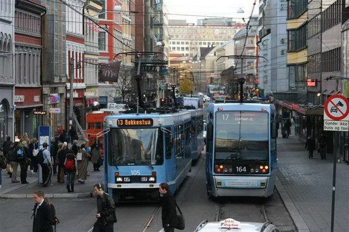 SL79 and SL95 trams of the Oslo Tramway in Storgata.